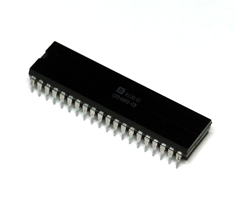 Atari custom chip GTIA for PAL-computers